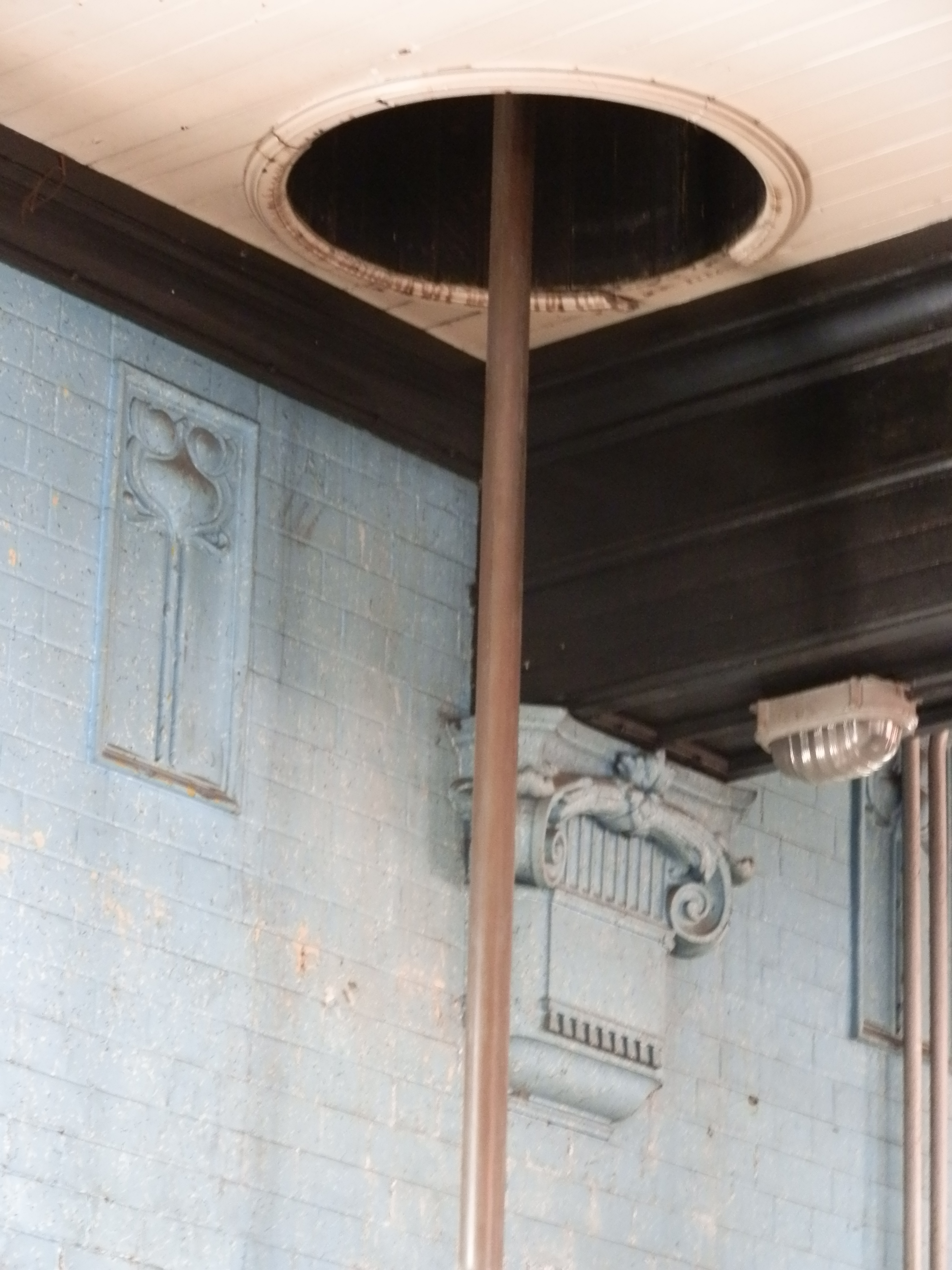 Fireman's pole at London Road Fire Station, Manchester